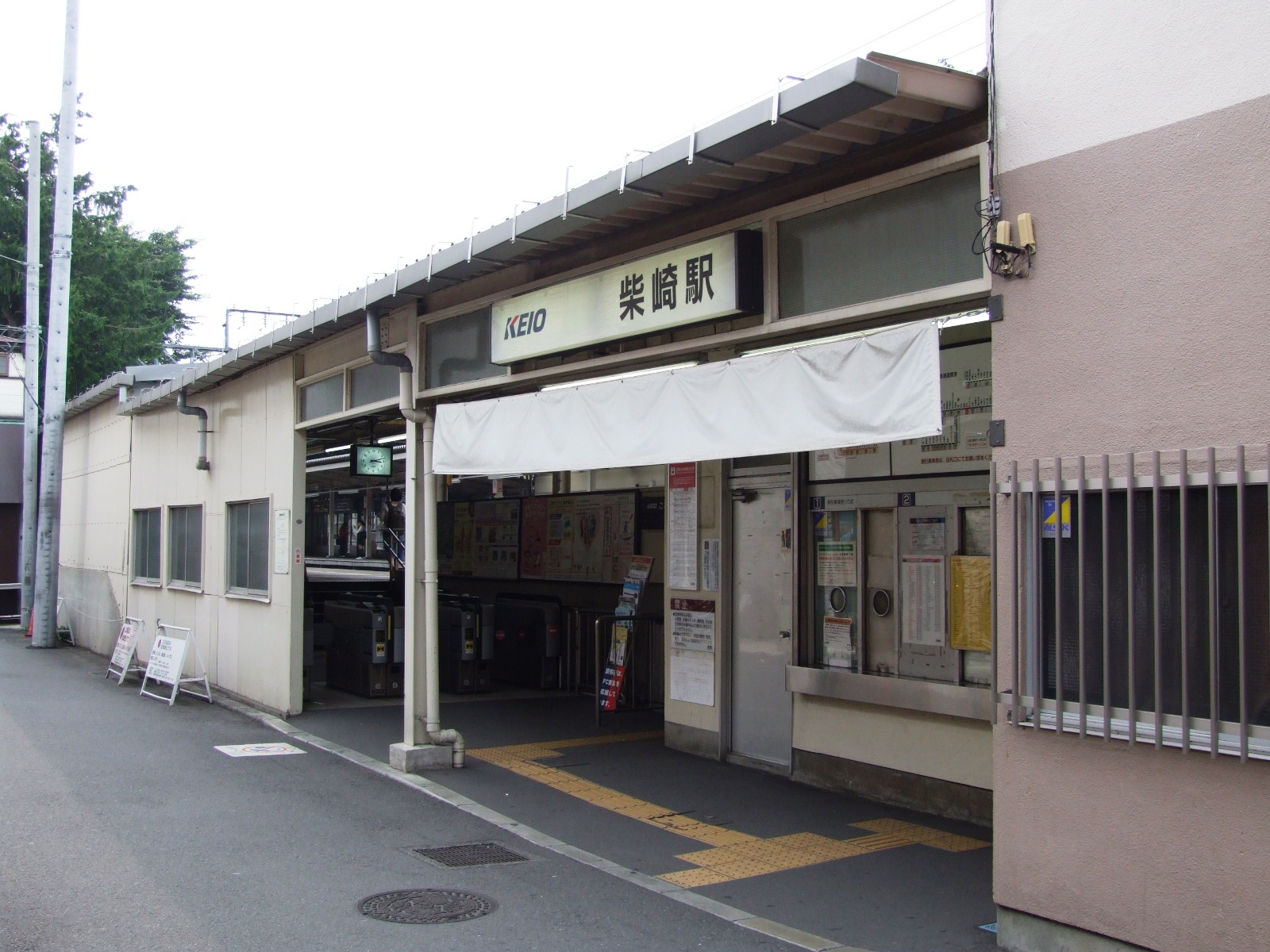 South gate of Shibasaki station,KEIO-LINE,Keio Corporation,Japan